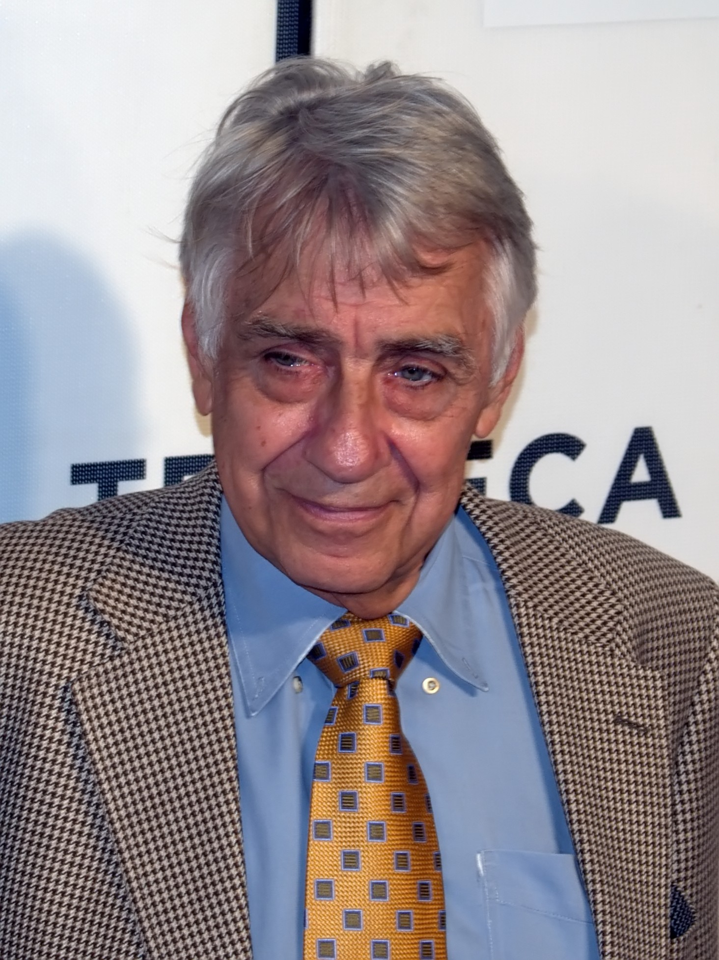 Phillip Baker Hall at the 2009 Tribeca Film Festival premiere of Wonderful World. Photographers blog post about the event and this photo.